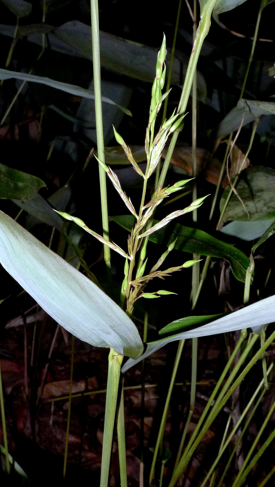 Sucrea monophylla Soderstr.